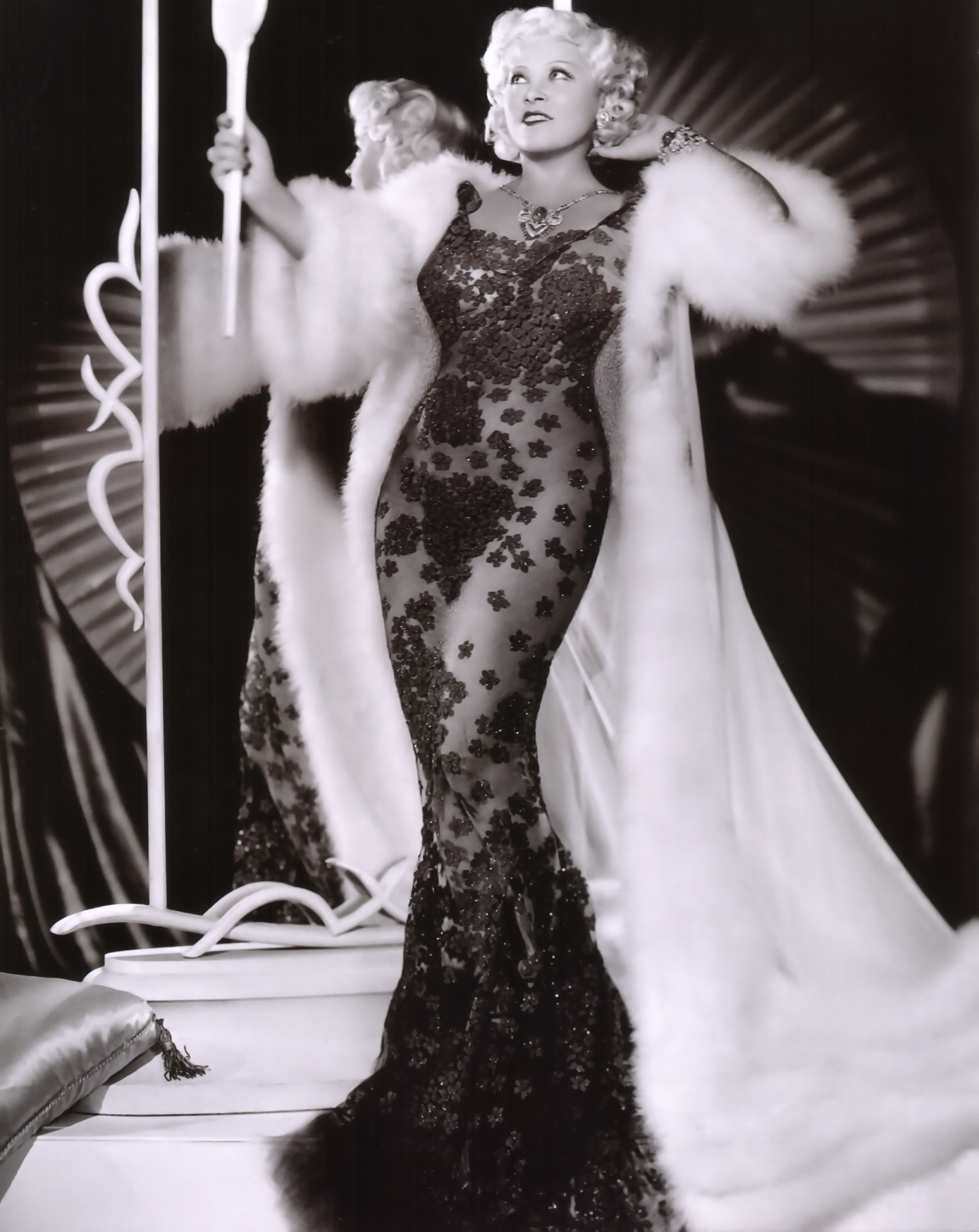 Mae West in "Go West Young Man", a film directed by Henry Hathaway (1936)